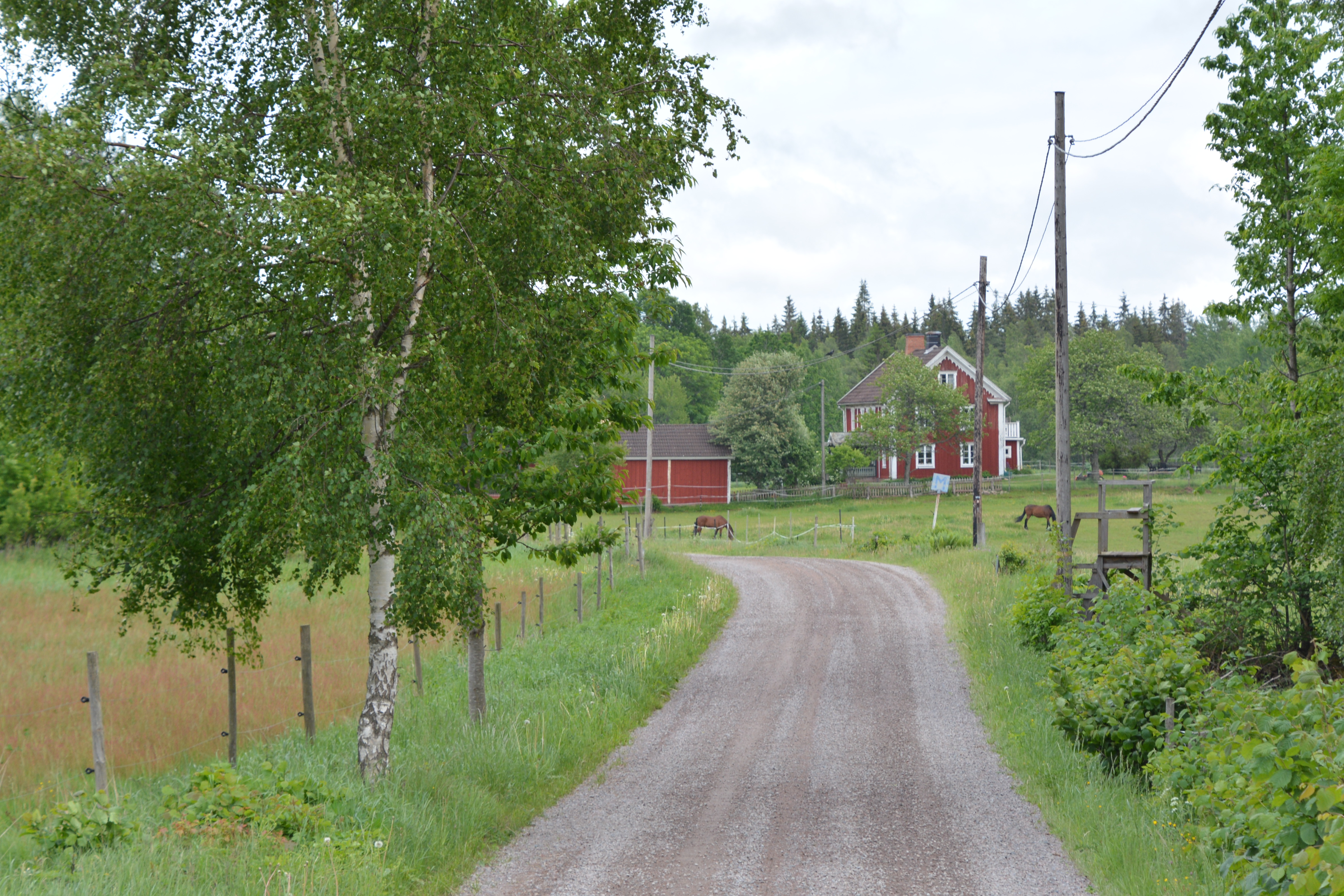 Slättemossa